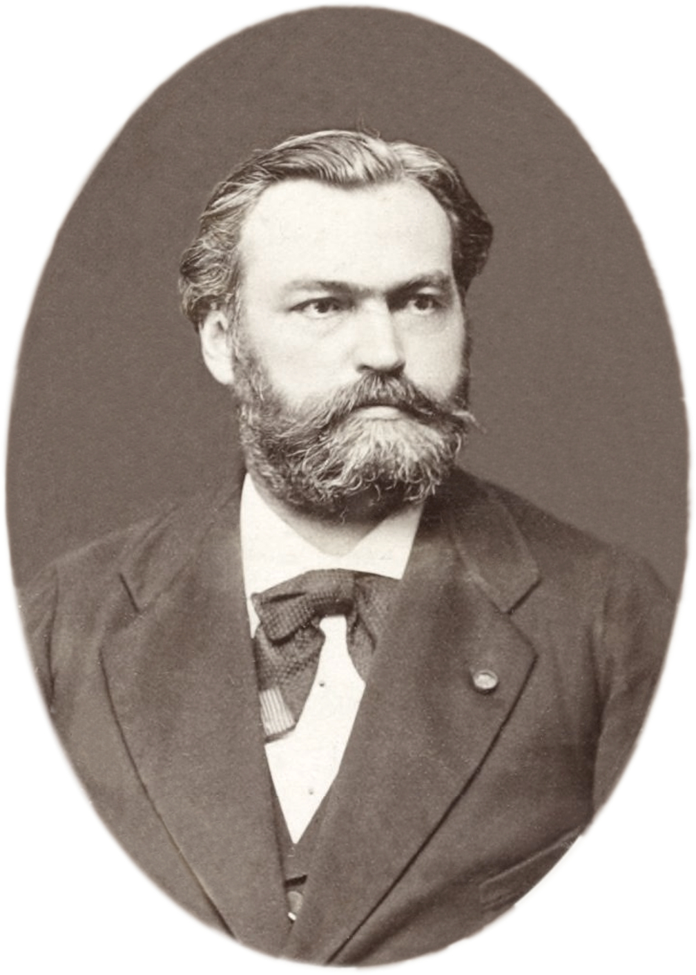 Edmond Fuchs (1837 - 1889), french geologist and engineer.